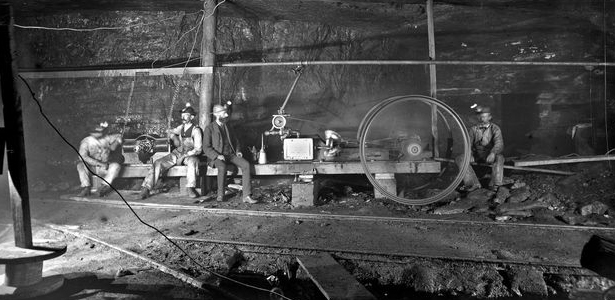 Underground photo of workplace, Kohinoor Coal Mine, PA ca. 1884. Photo courtesy Smithsonian Institution